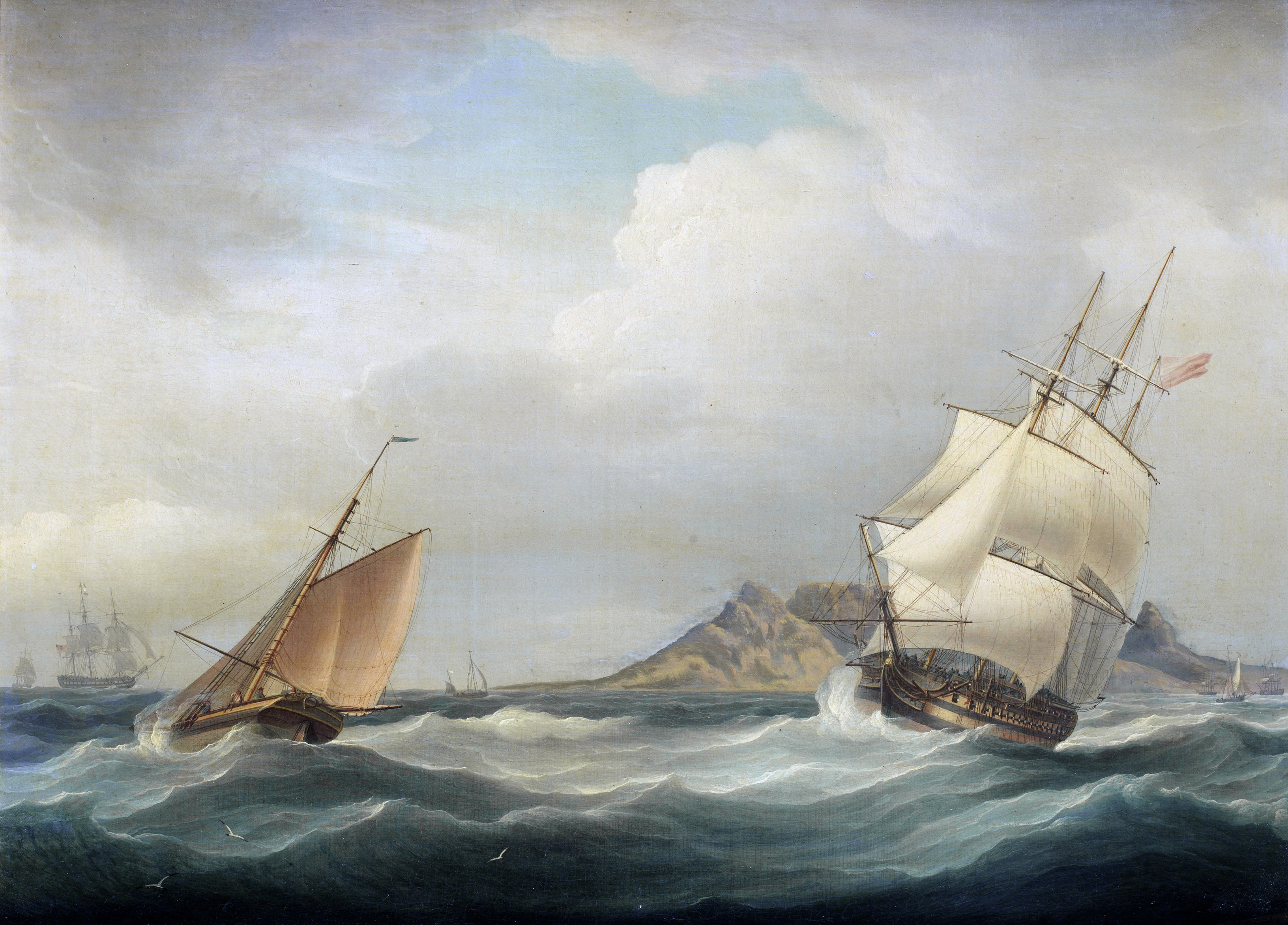 The second Illustrious to serve in the Royal Navy oil on canvas 47 x 63 cm circa 1811